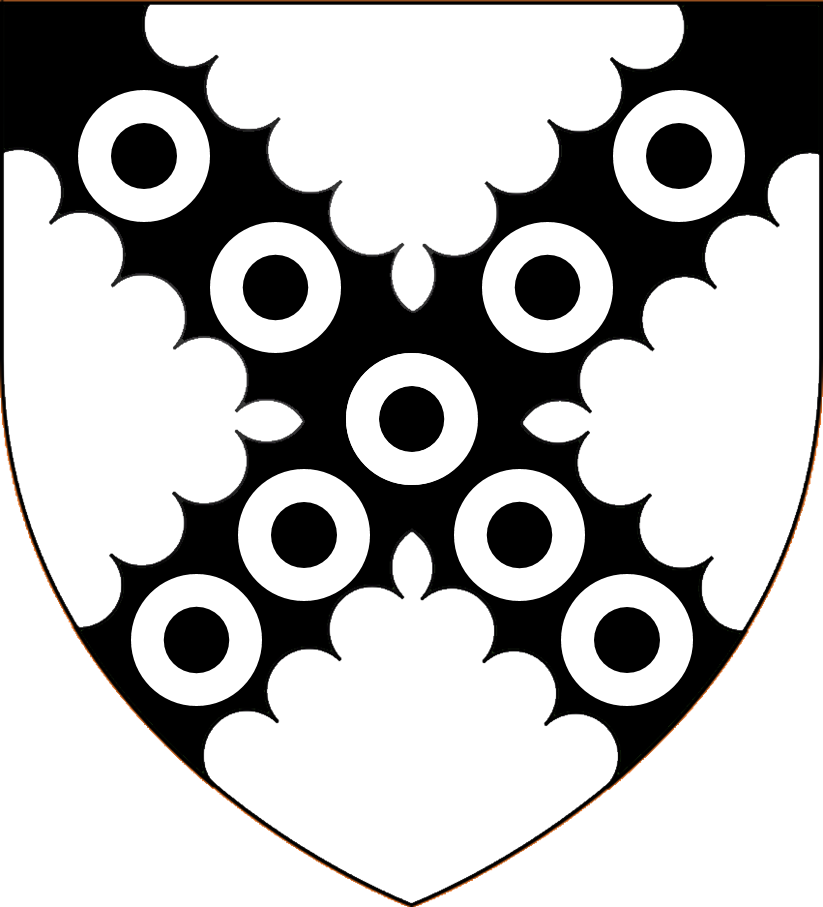 Shield of arms of The Earl of Scarsdale